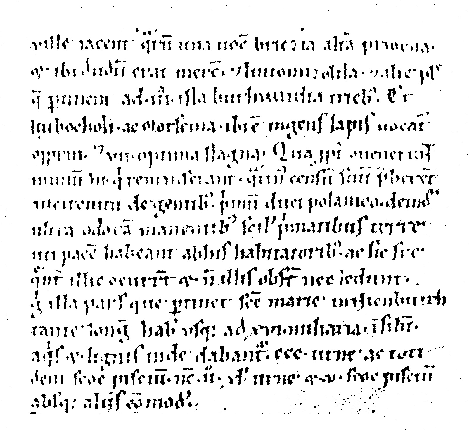 Extract from the so-called „Nienburger Bruchstück“. The deed-fragment of the Nienburg Abbey (Saxony-Anhalt, Germany) is dated around the time of 1180.